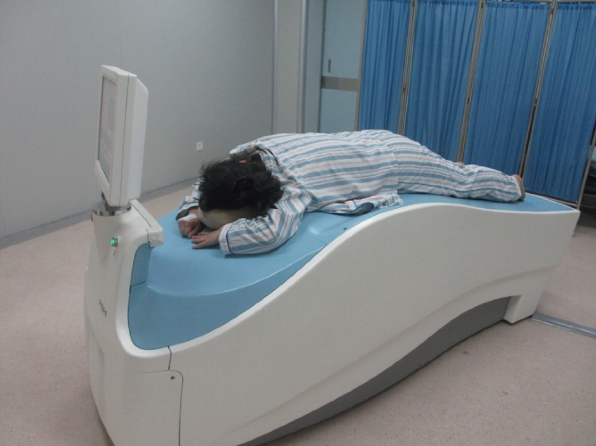 PEMi-I scanning system (Gao Neng Medical Equipment Co., Ltd. Hangzhou, China). The PEMi-I system has a 64-ring detecting system, which allows for efficient acquisition of 3D images. The opening for breast placement has a diameter of 160 mm. The machine was designed for prone position, so that the breasts hang freely in the detector